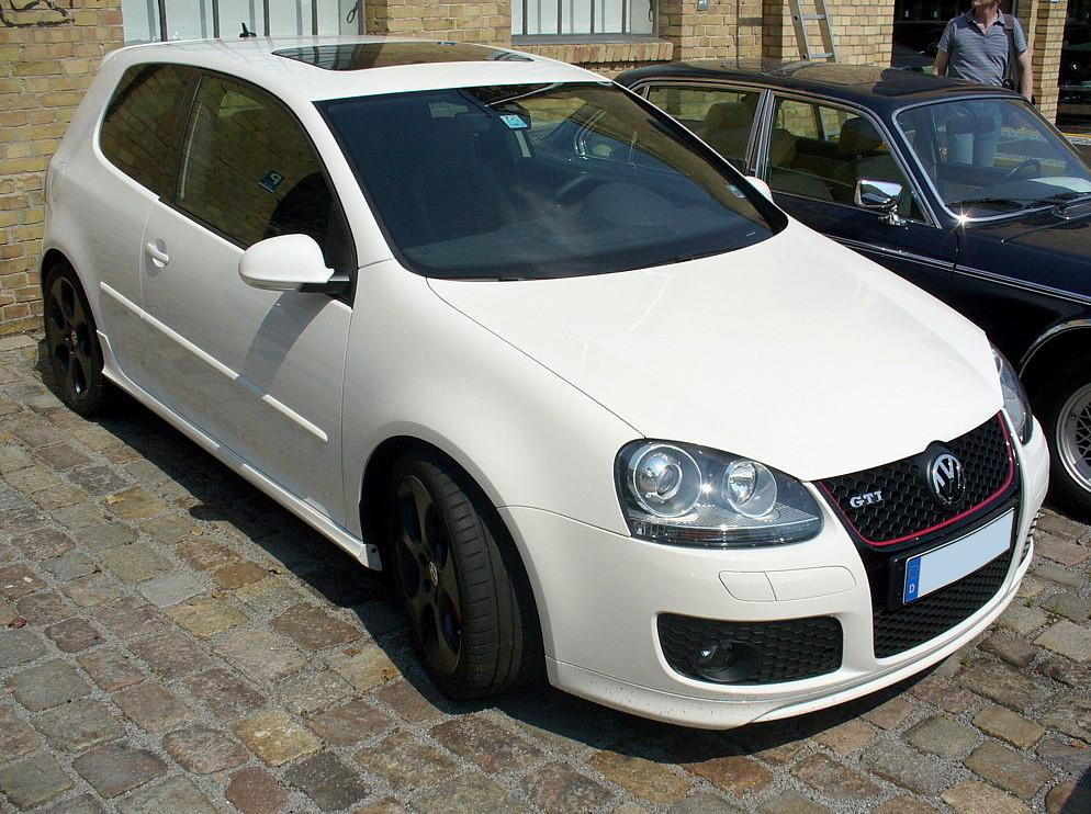 VW Golf GTI Edition 30